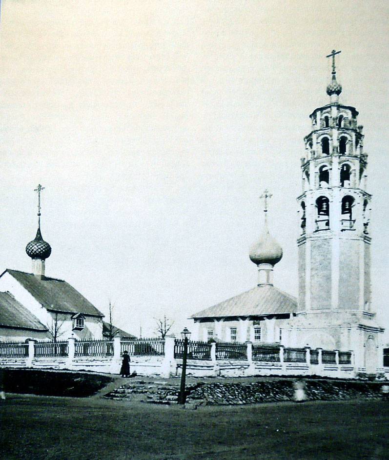 Church of Nicetas the Goth in Yaroslavl (17th century)